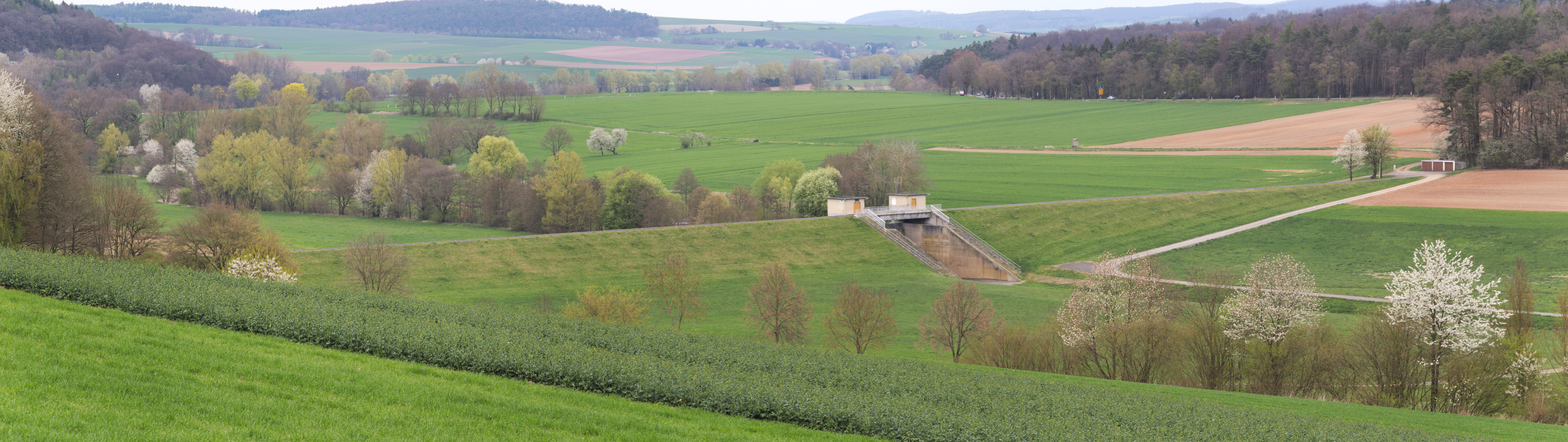 Retention pond (Schwalm River) near Heidelbach, Alsfeld, Hesse, Germany